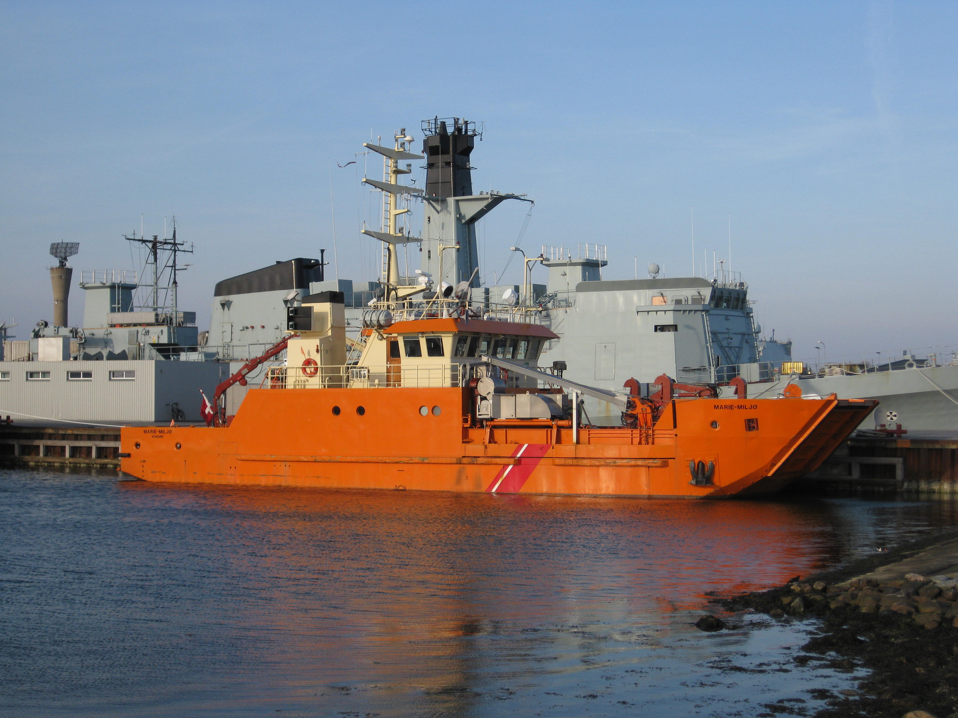 Marie Miljø at navalbase Korsør